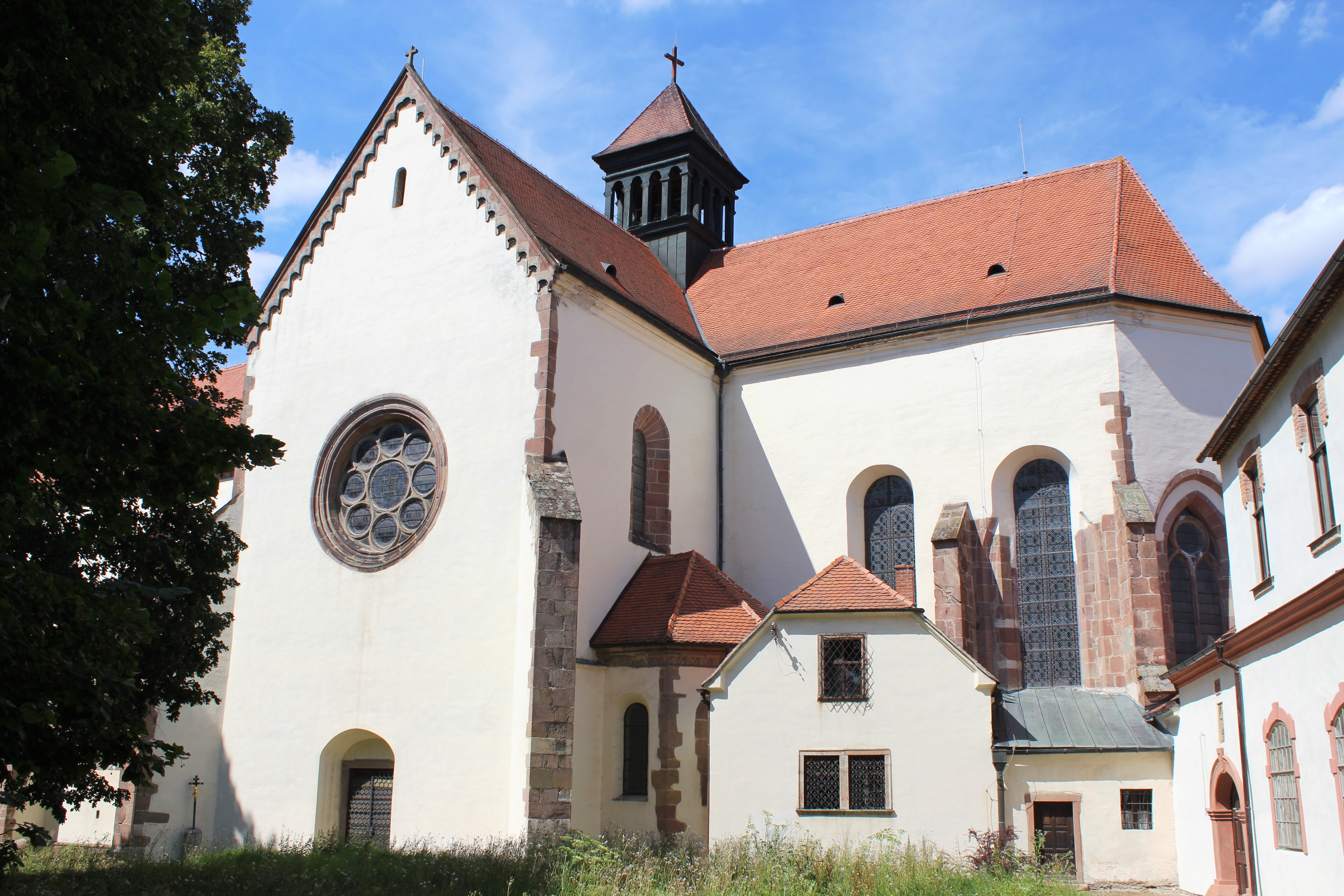 Church of the Assumption of the Virgin Mary, Předklášteří, Brno-Country District, Czech Republic - Google Maps - Google Earth This photograph was taken with a DSLR from WMCZ's Camera grant.